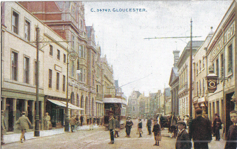 Gloucester Corporation Tramway ca. 1912